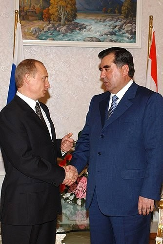 Visit to Tajikistan and 201st Motorised Rifle Division